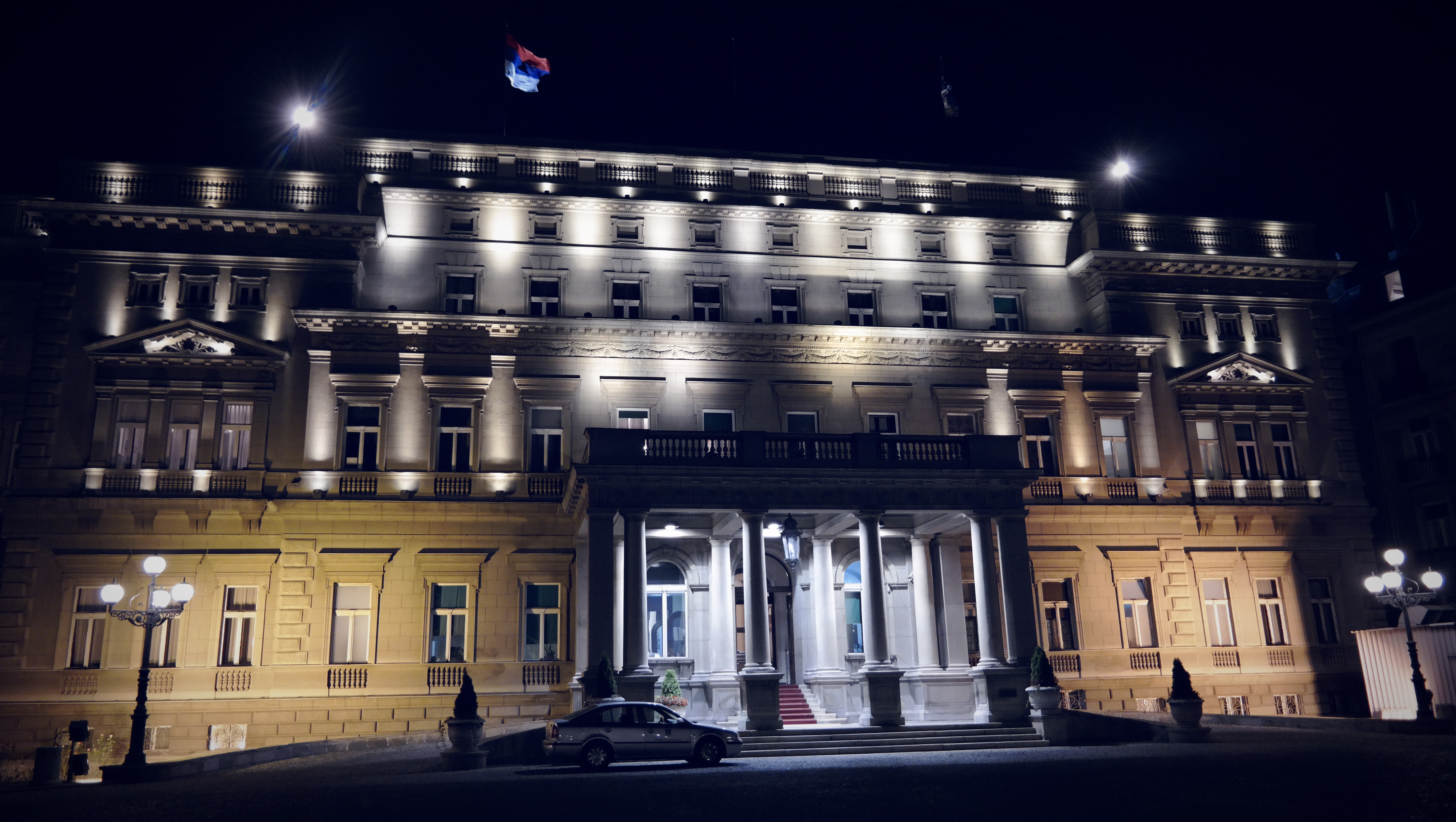 Stari Dvor (Serbian Cyrillic: Стари Двор) meaning Old Palace, was the royal residence of the Obrenović dynasty. Today it houses the City Assembly of Belgrade. The palace is located on the corner of Kralja Milana and Dragoslava Jovanovića streets in Belgrade, Serbia.